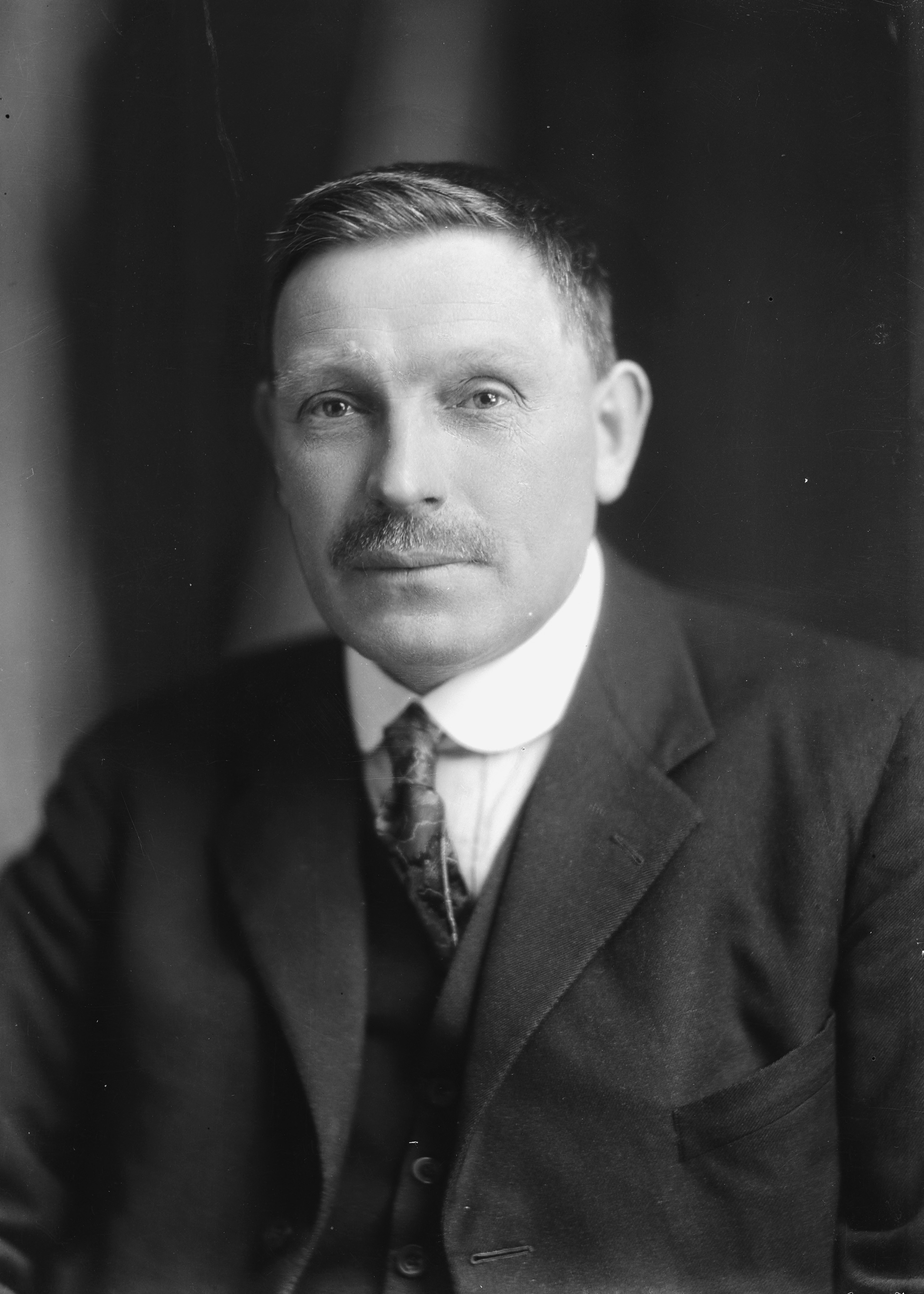 Adam Hamilton, 11 October, 1926, photographed by Stanley Polkinghorne Andrew.